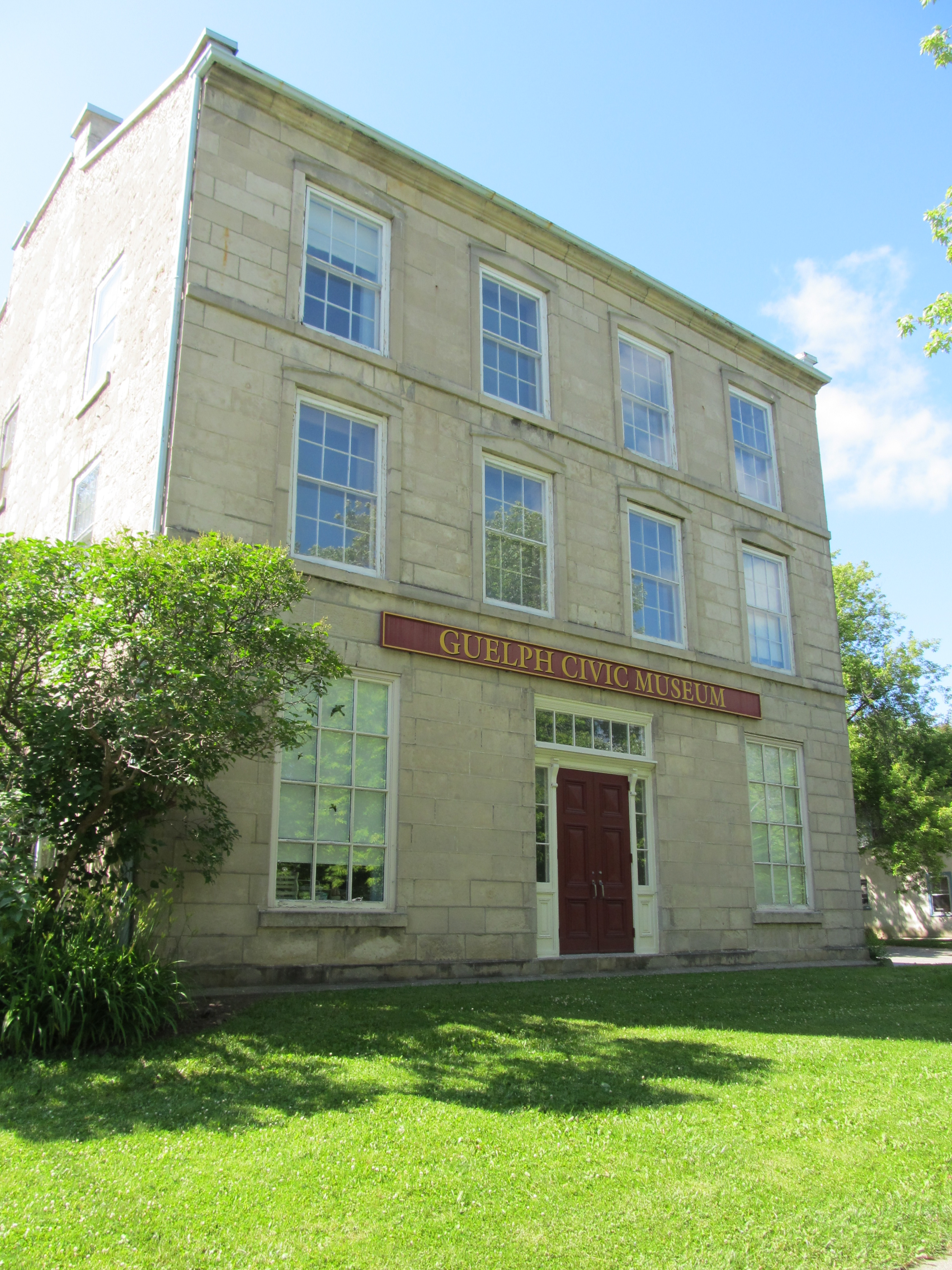 Side view of the museum at 6 Dublin Street